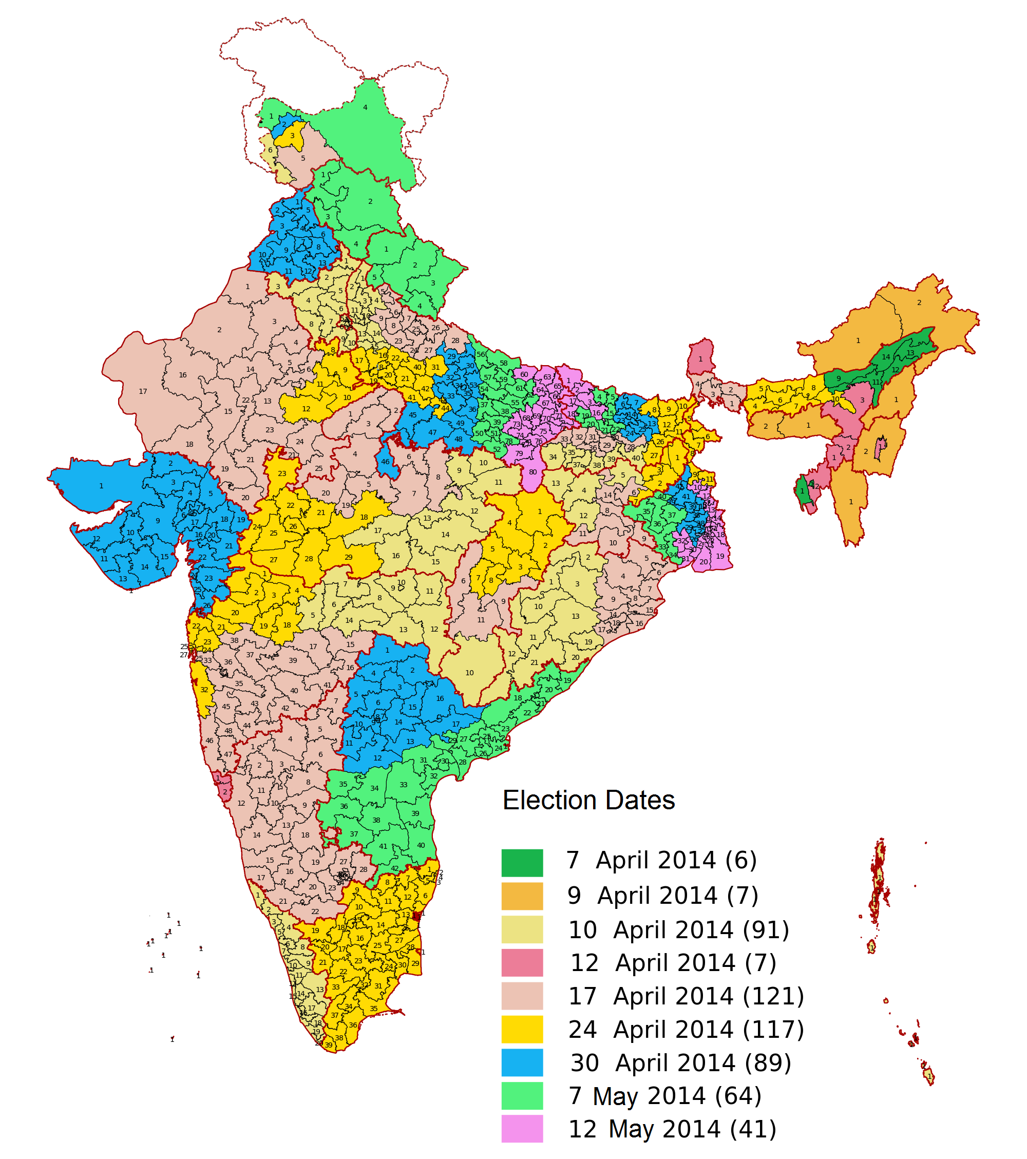 This is a map to demonstrate the polling dates of Indian general election, 2014: 7 April 2014 9 April 2014 10 April 2014 12 April 2014 17 April 2014 24 April 2014 30 April 2014 7 May 2014 12 May 2014